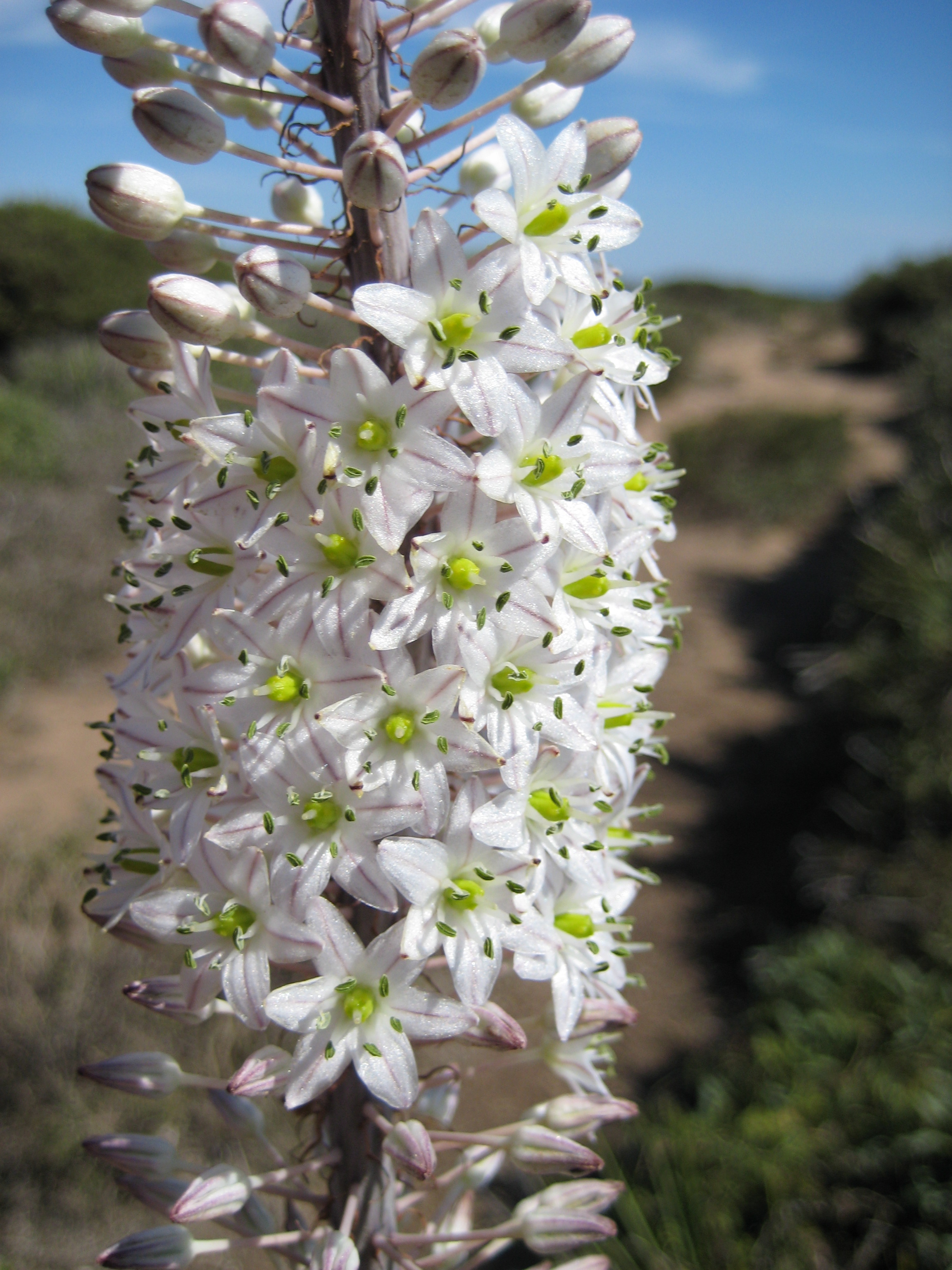 flowers of urginea maritima, at a site near Oristano in Sardinia, Italy